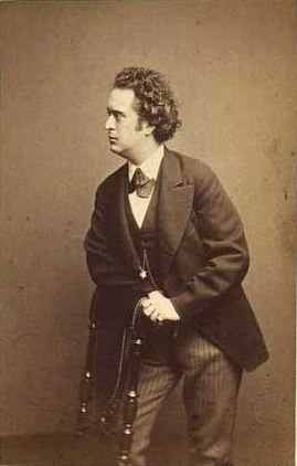 Johannes Henrik Severin Abrahams (1843-1900), Danish actor and director of Folketeatret